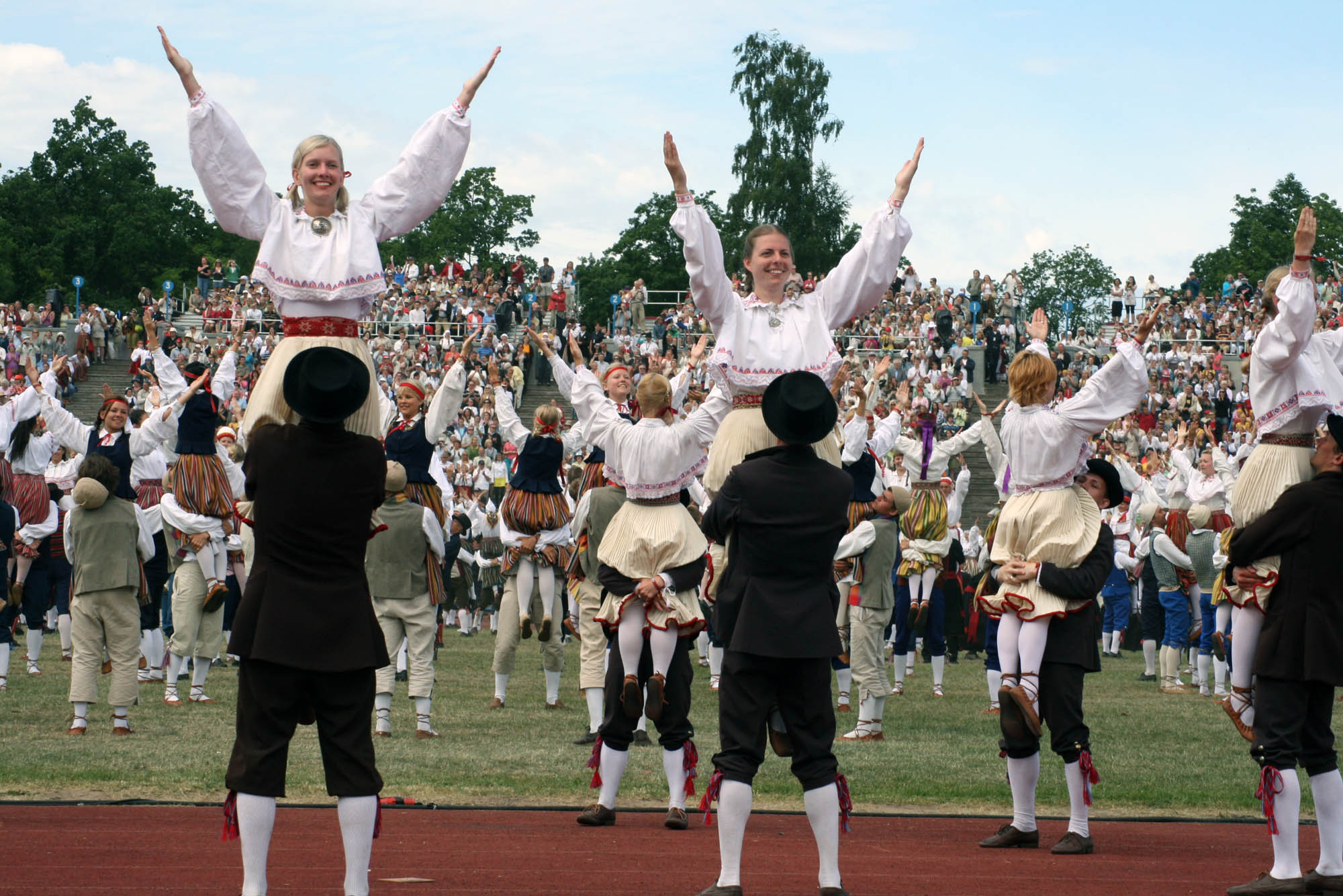 Tallinn song and dance festival 2009